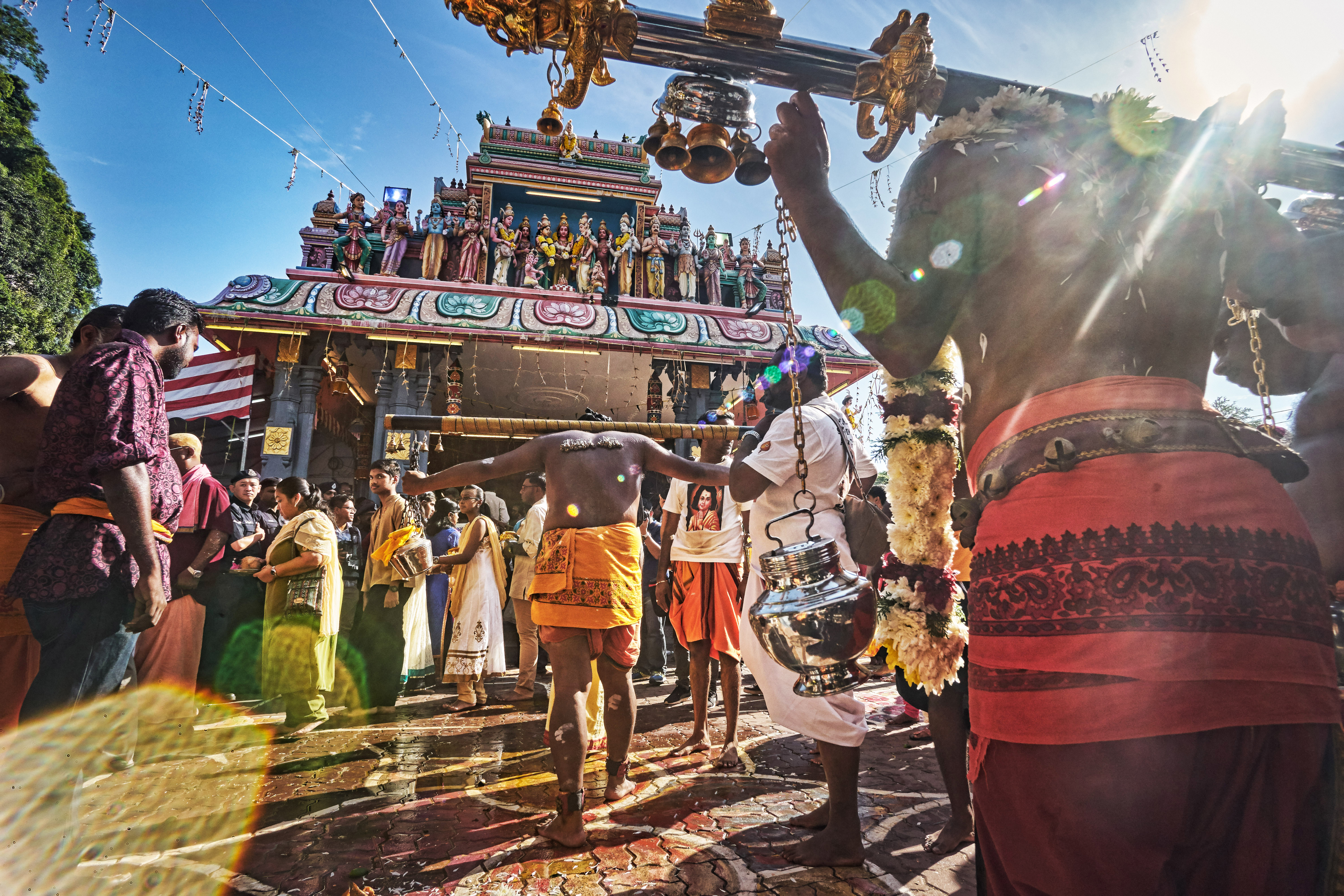 Thaipusam Festival in Ipoh, Perak, Malaysia.